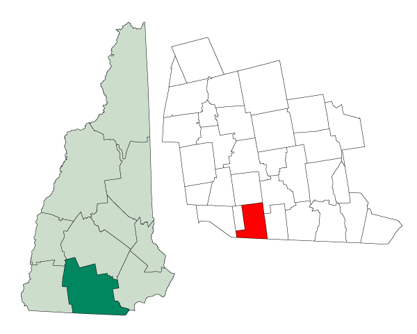 Map of a municipality in Hillsborough County, New Hampshire